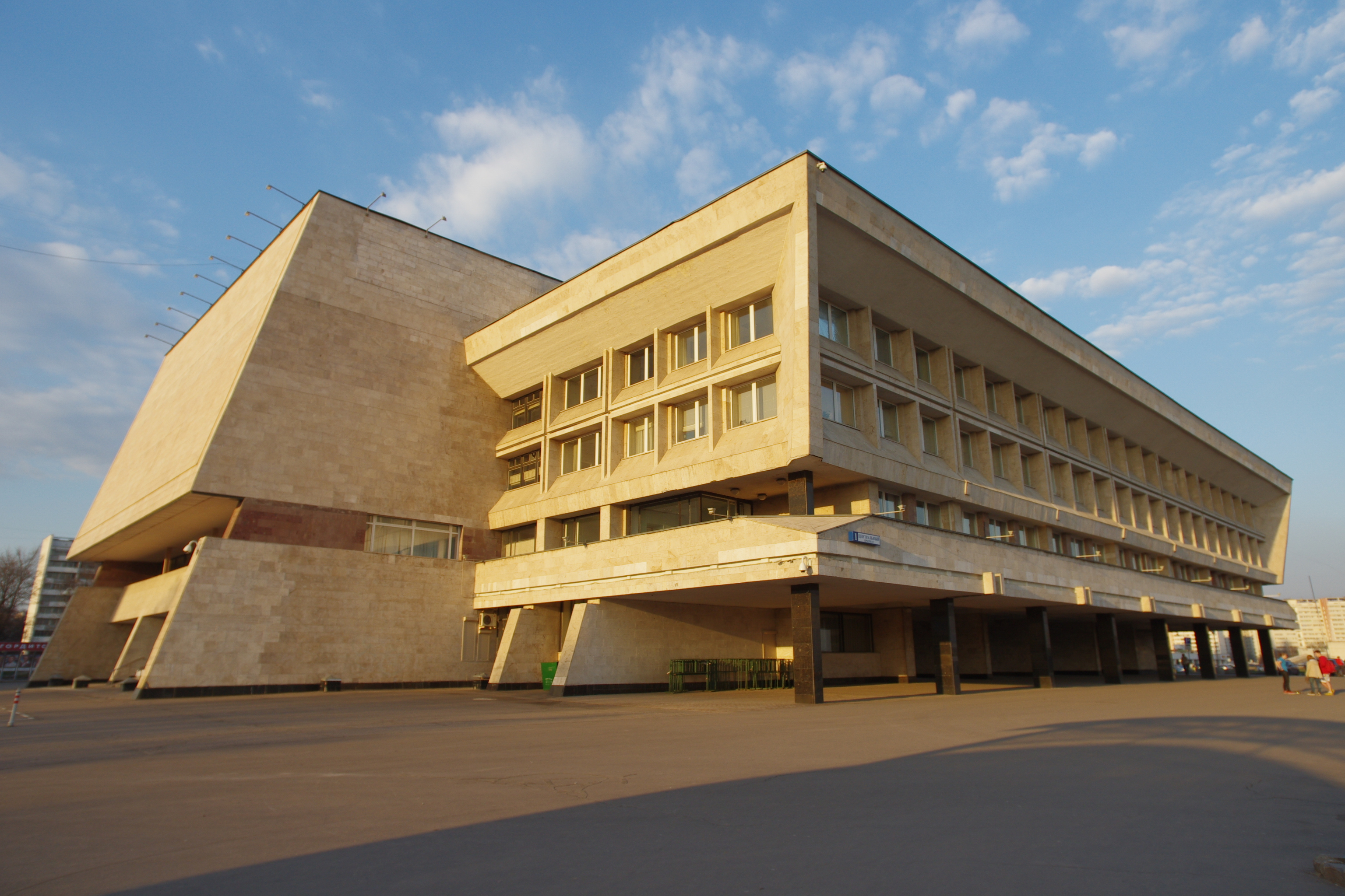 See georeference